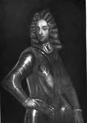 Portrait of Colonel Thomas Farrington (1664-1712)